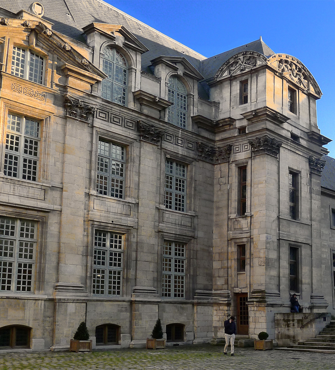 Southern part of the courtyard (west) facade of the Hôtel de Lamoignon in Paris